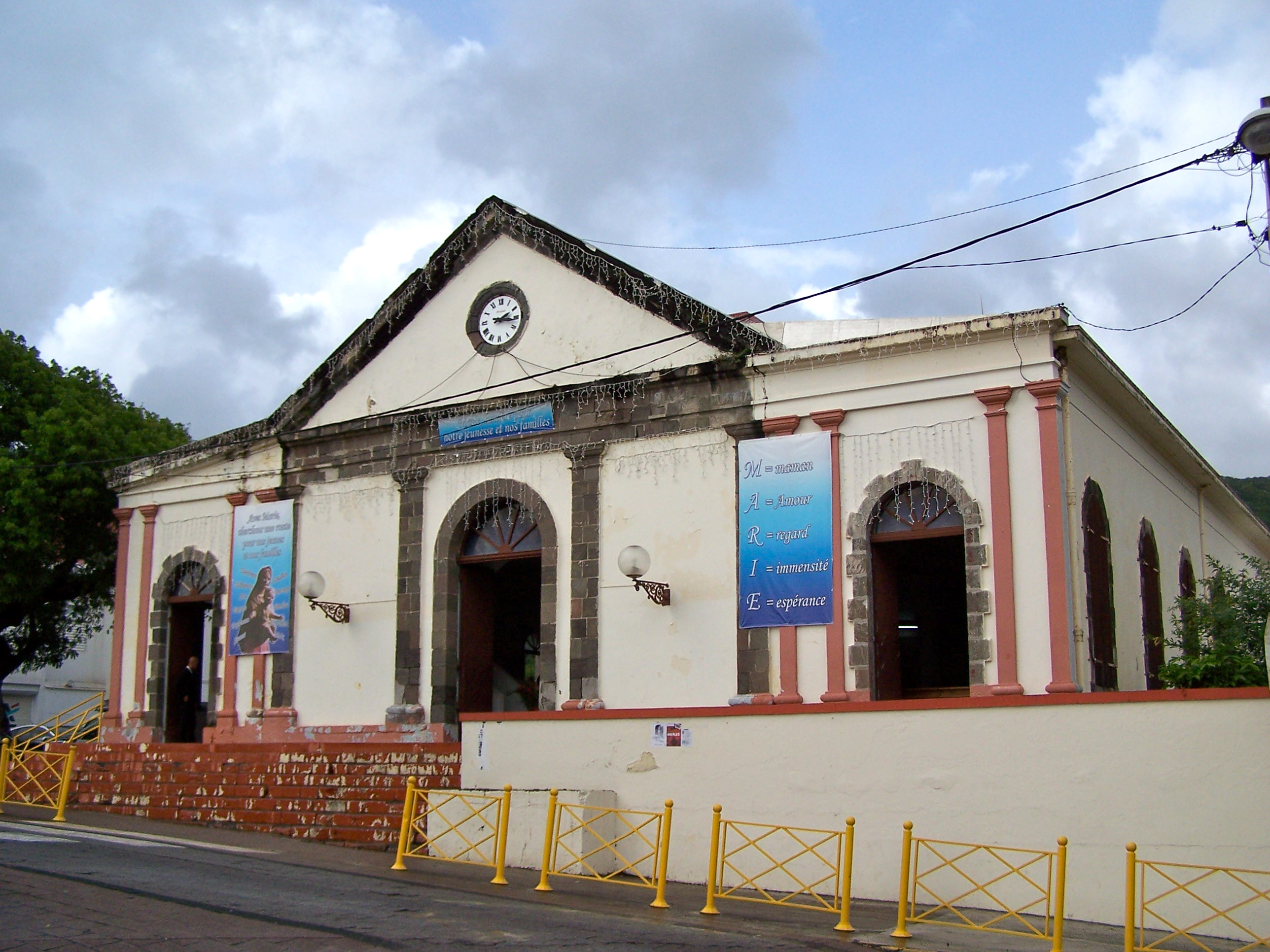 Église Notre-Dame-de-l'Assomption de Pointe-Noire, Guadeloupe